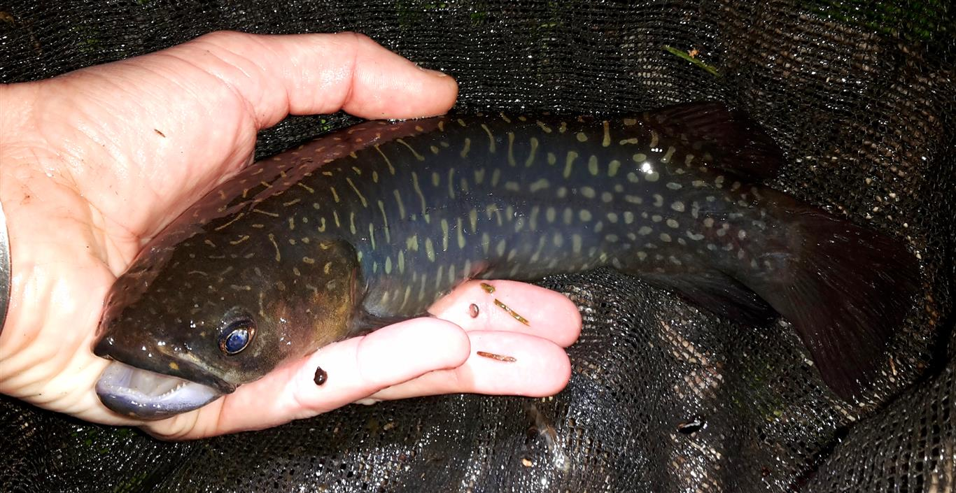 Giant kokopu (Galaxias argenteus) from Wainui Stream, Paekakariki. 25 cm long. Note the teeth. Photo by Stella McQueen